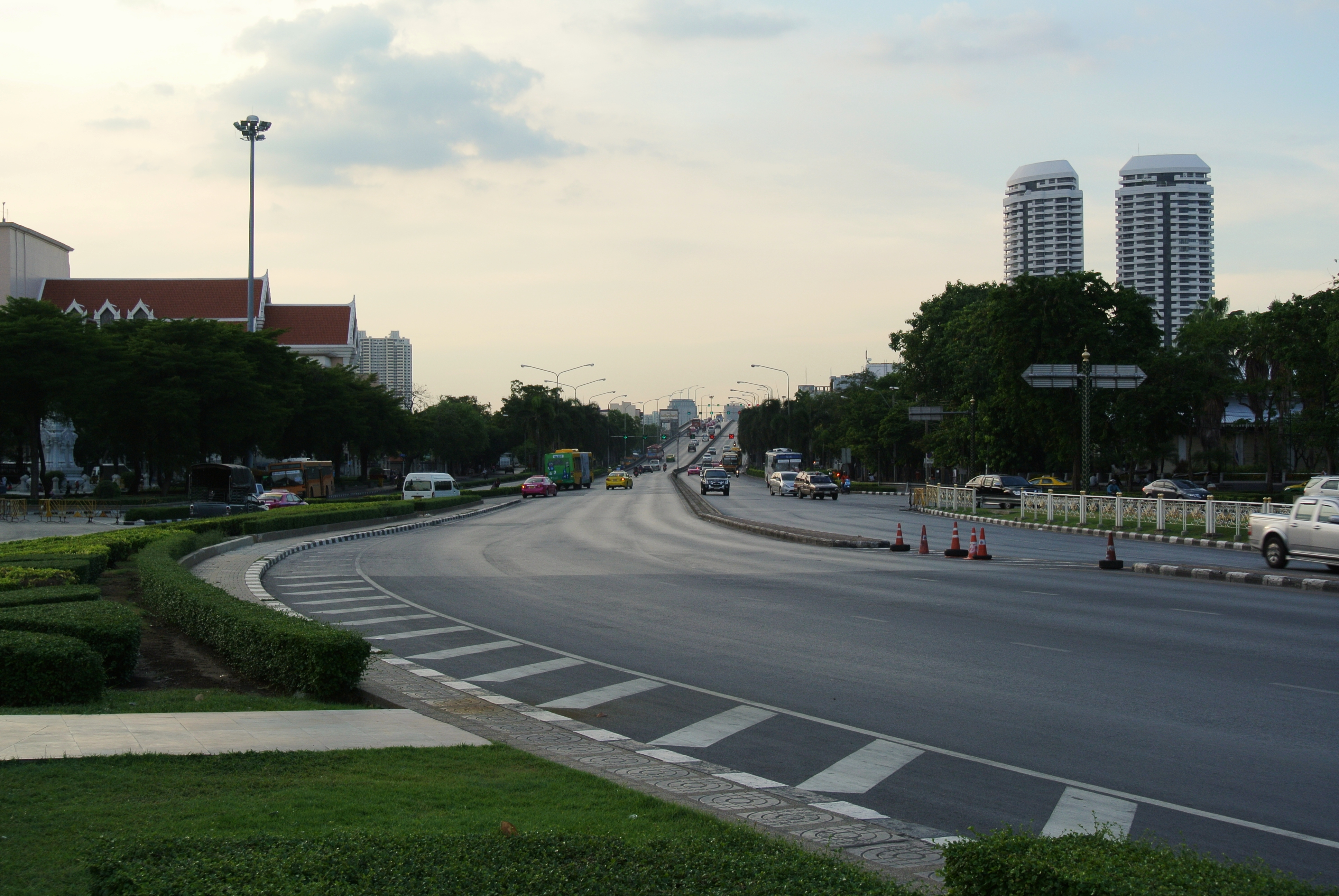 Chao Fa Road and Somdet Phra Pin-klao road seen towards Thonburi. National Theater on the left, National Museum on the right.